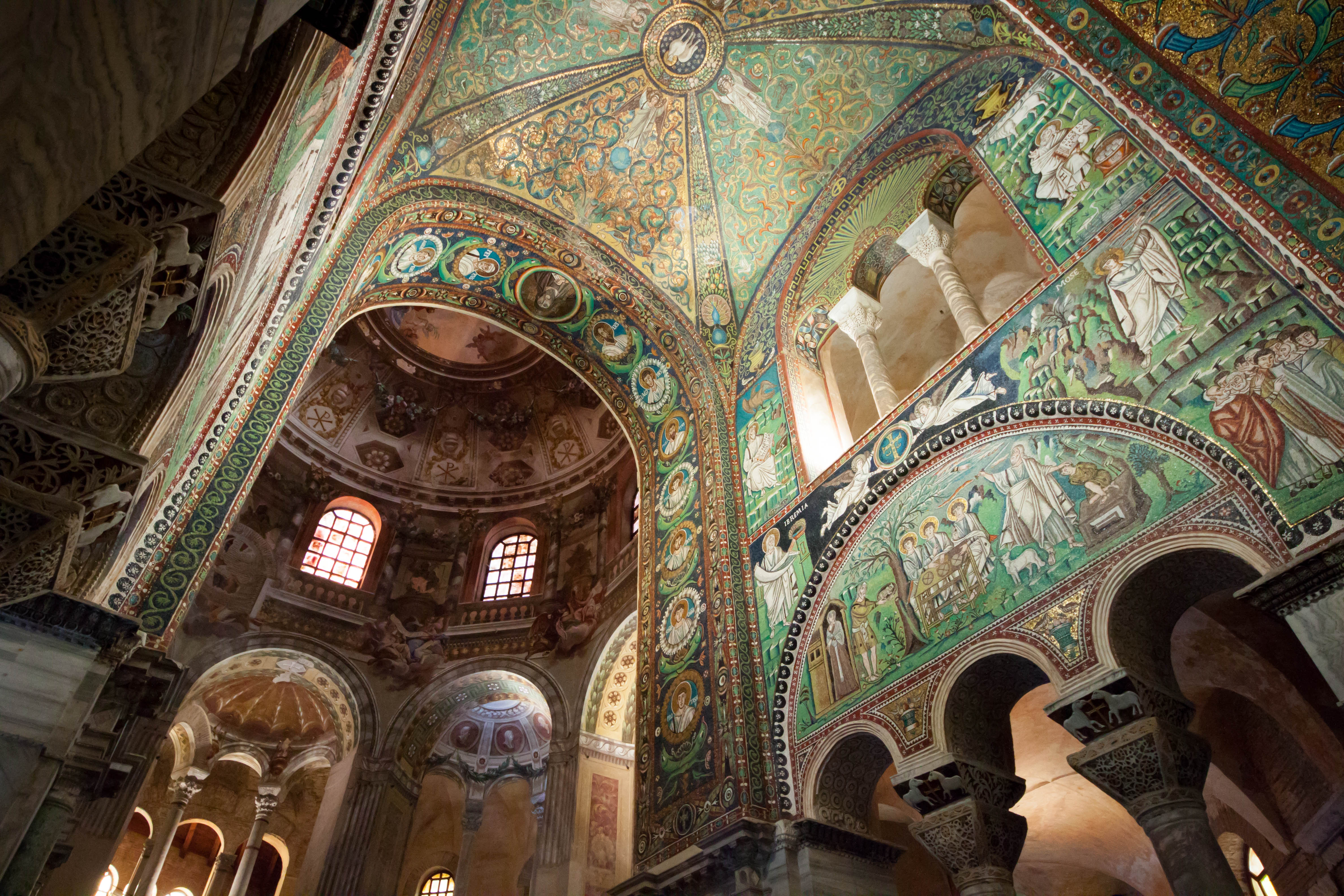 This is a photo of a monument which is part of cultural heritage of Italy.